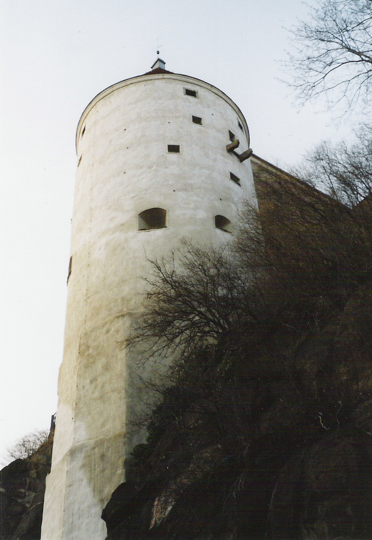 Ortenburg Castle in Bautzen. Hornjoserbsce: Hrodowa wodarnja w Budyšinje.